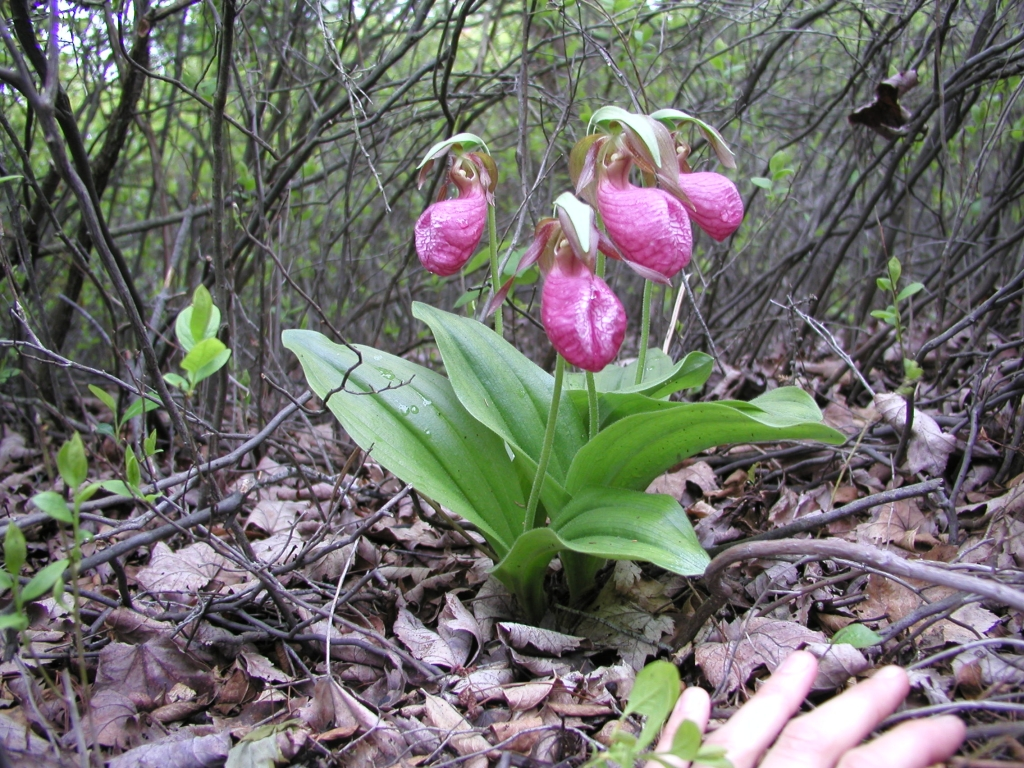 Pink Lady's Slipper (Cypripedium Acaule)